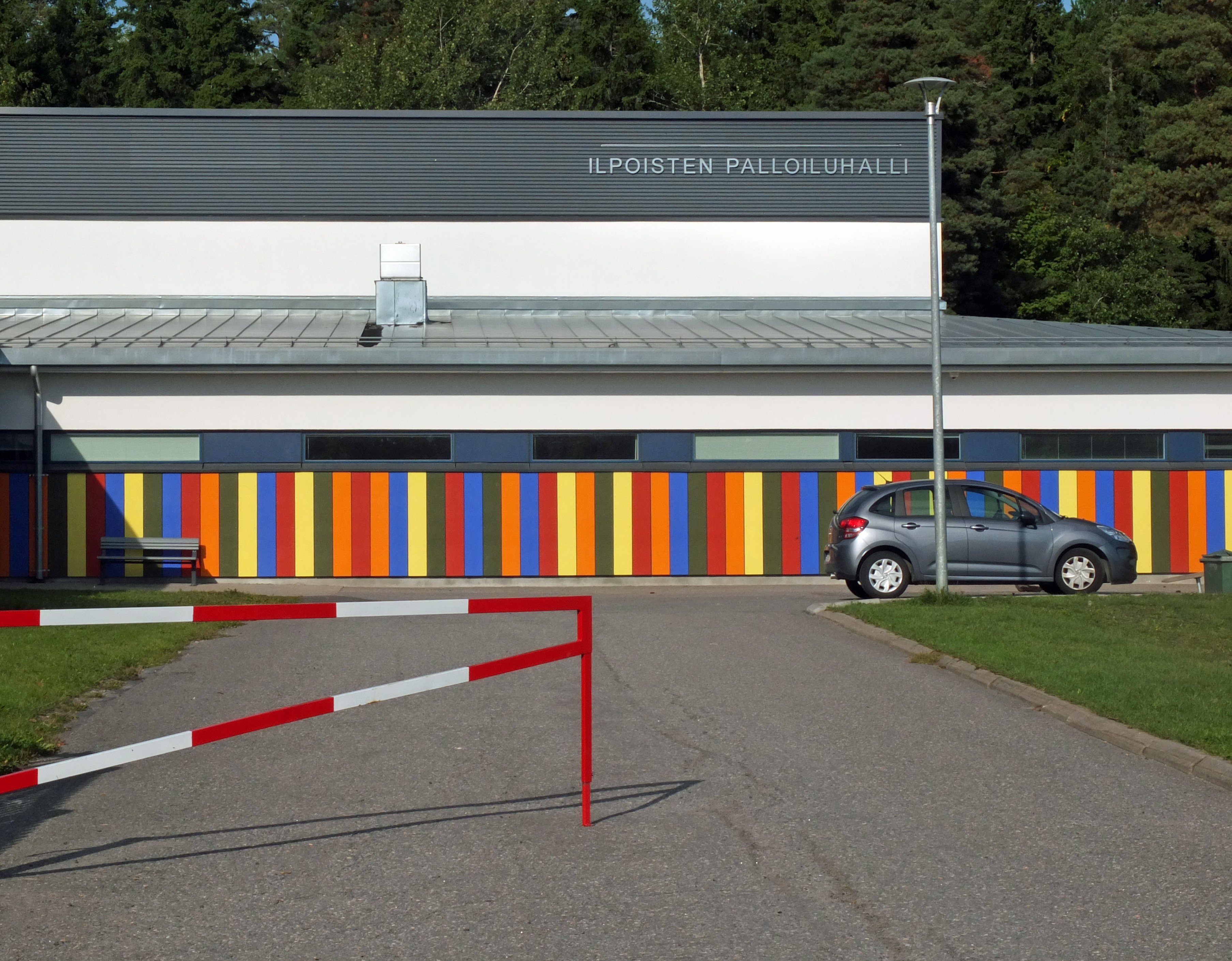 Indoor sports centre in the Ilpoinen suburb, Turku, Finland.